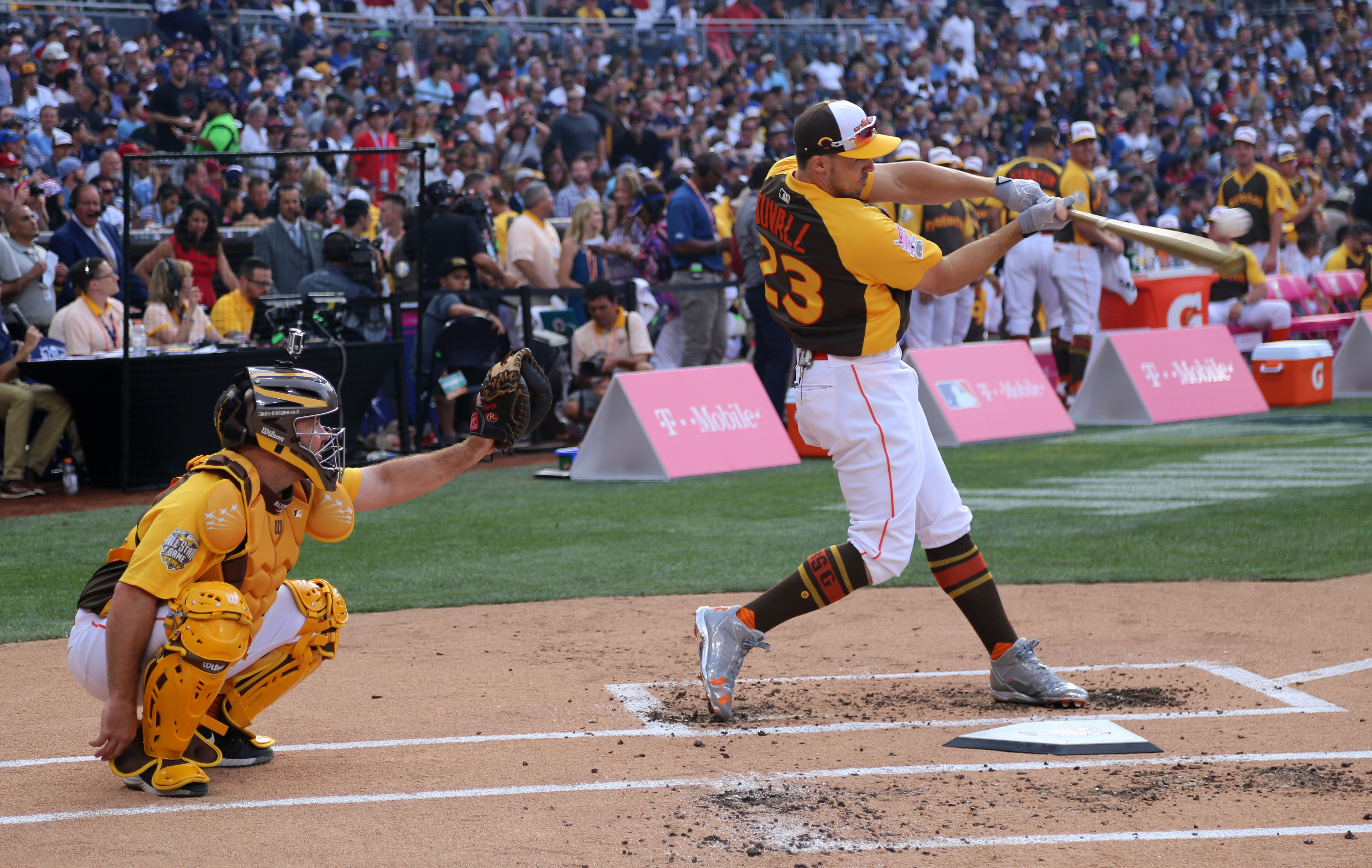 Adam Duvall takes a swing during the T-Mobile #HRDerby.